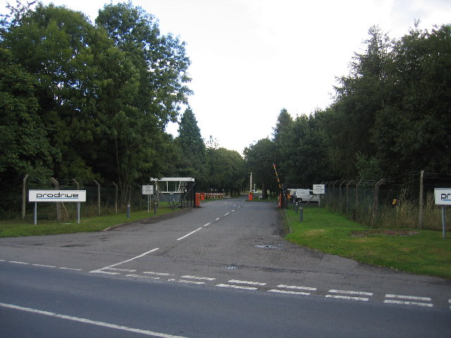 Prodrive Vehicle Proving ground entrance. Much of this square and the adjacent one to the east is taken up with a vehicle proving ground built on an old airfield. This is the entrance to the site from Oldwich Lane East near the northern edge of the square.